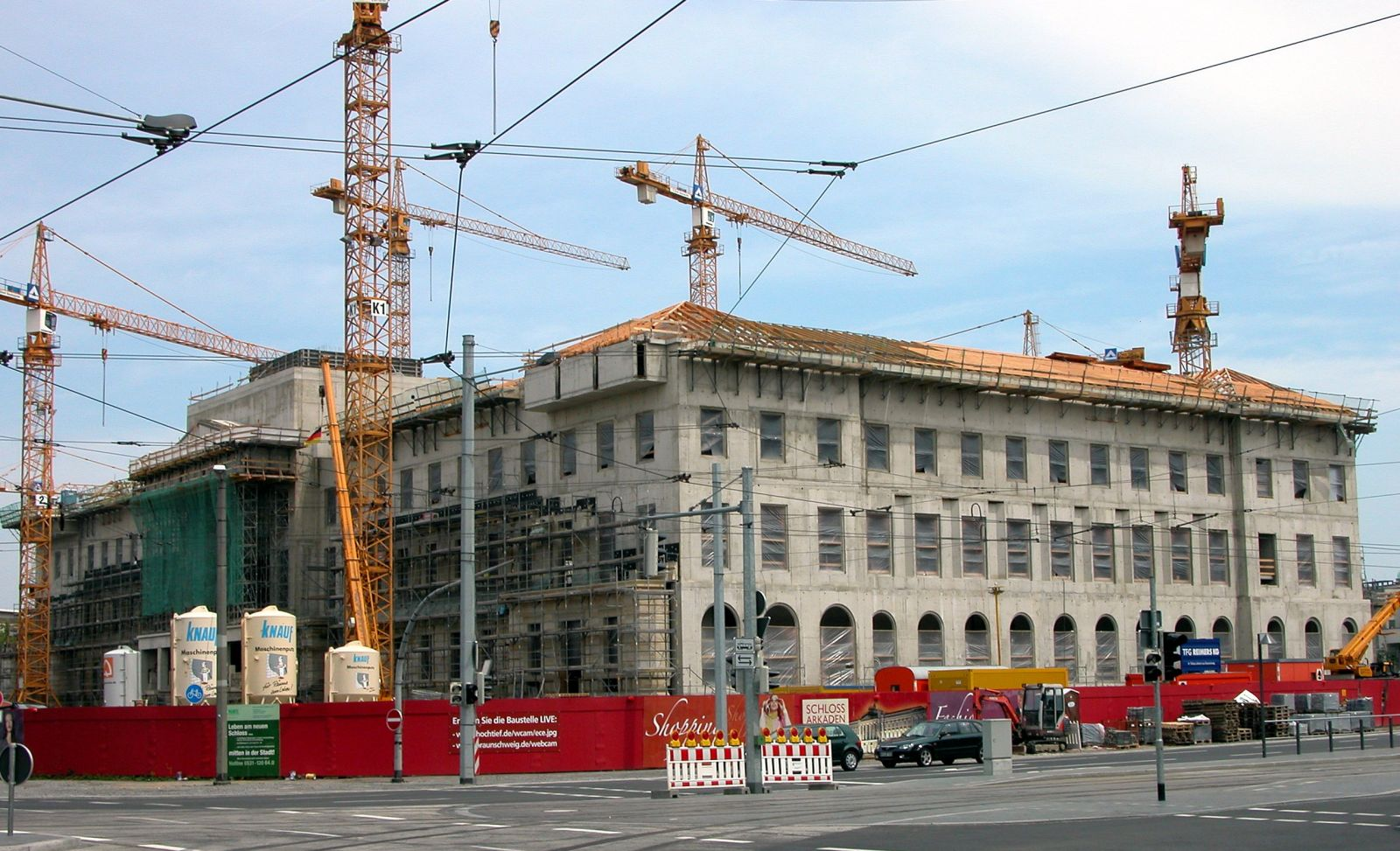 Juni 2006. Brunswick, Germany: Construction site of Braunschweig Palace, 18 June 2006.